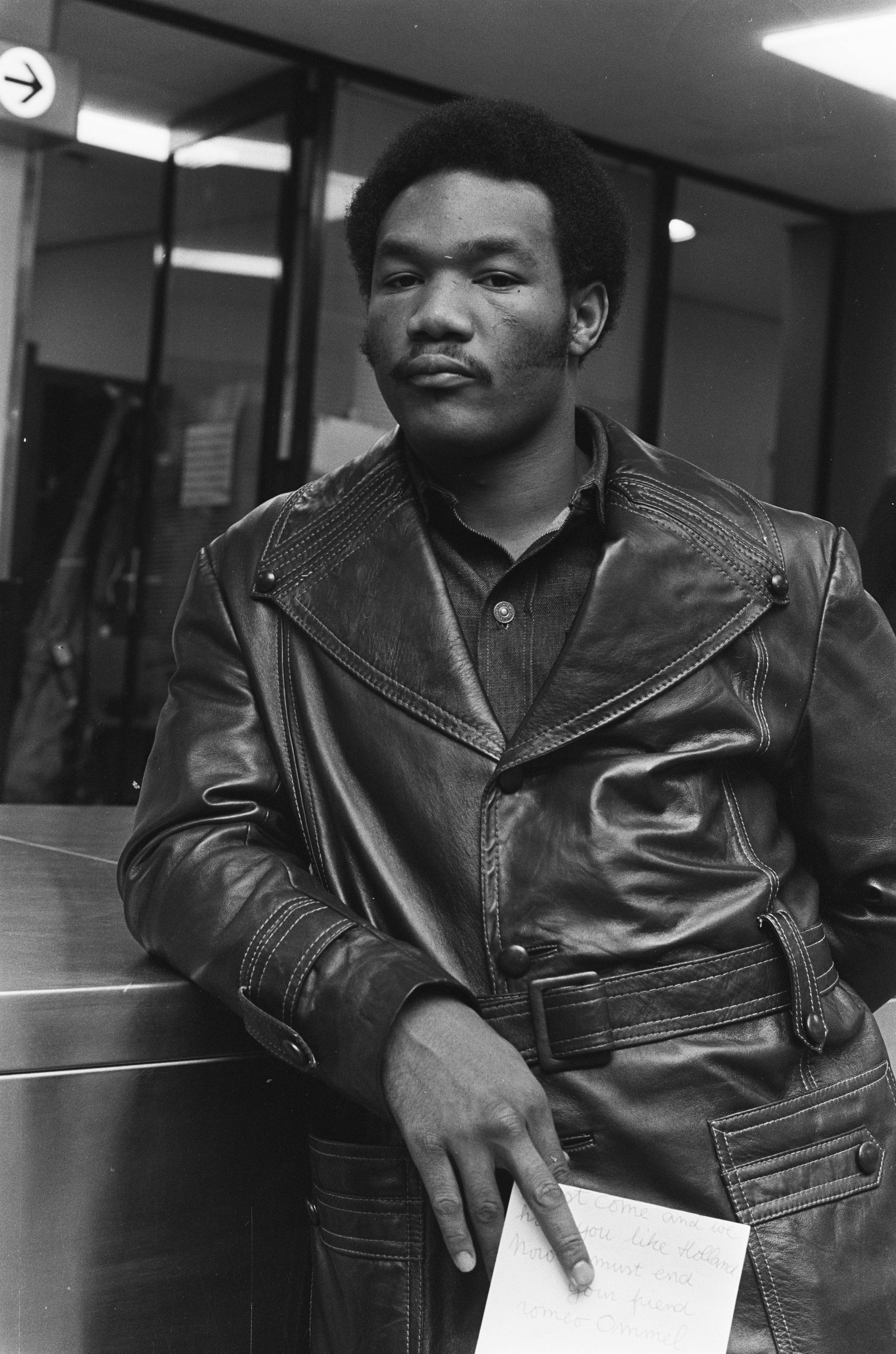 George Foreman arrival at Amsterdam Airport Schiphol